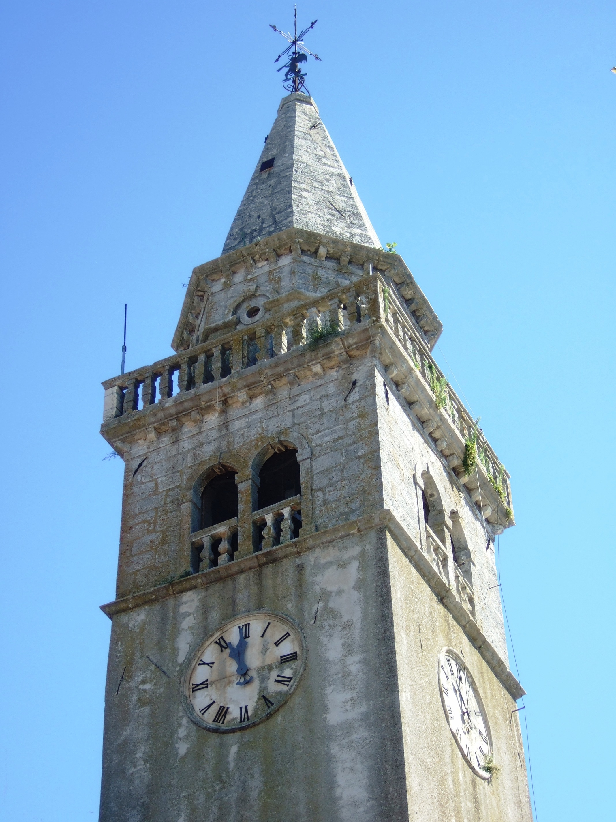 Bell Tower, Church of St Michael the Archangel, Žminj, Croatia (summer 2010)